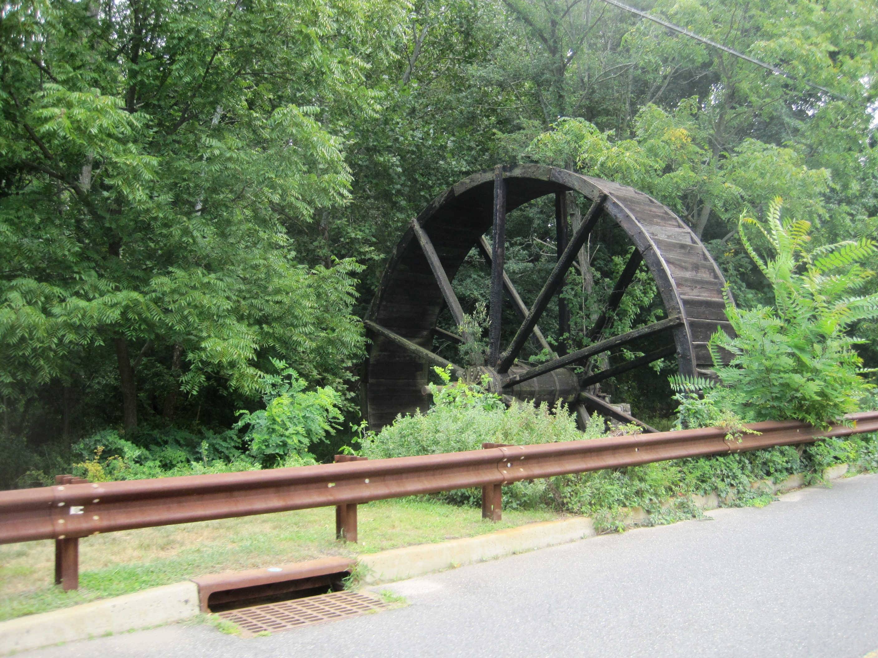 Photo of the ruins of Bucks Mill, withing the unincorporated community of Bucks Mill, New Jersey, within Colts Neck Township. Photo taken on Bucks Mill Road at the Yellow Brook.